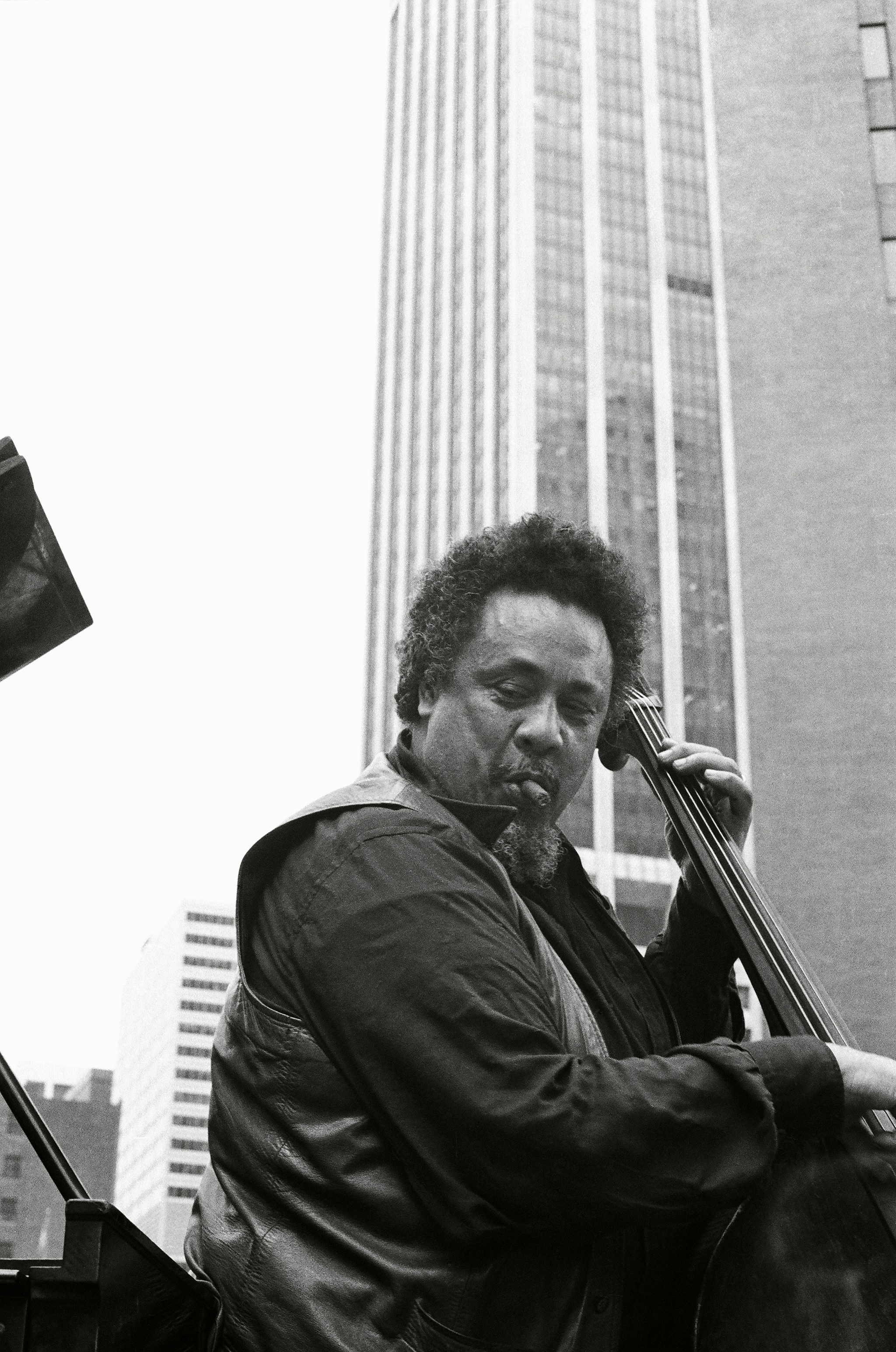 Charles Mingus - Bi Centenial, Lower Manhattan July 4, 1976